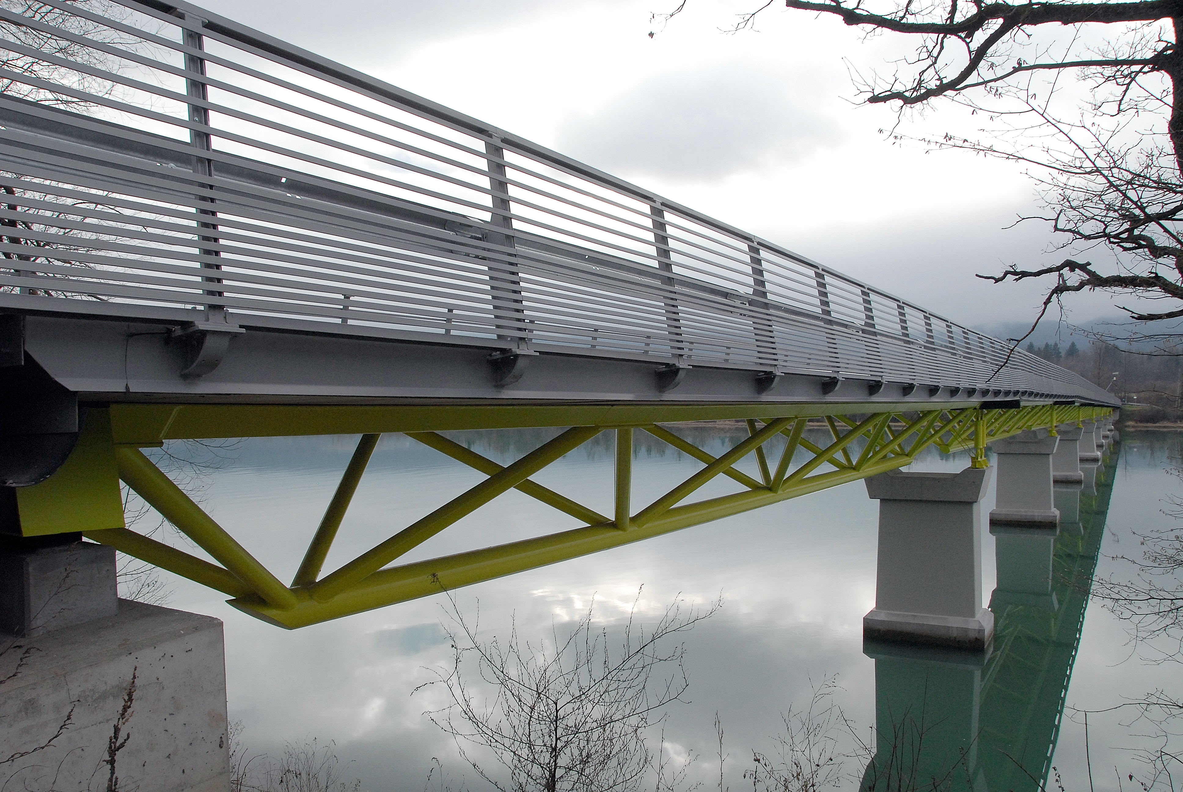 Road-bridge (renovated with a new construction in the year 2006) across the river Drau near Selkach (Želuče) in the community Ludmannsdorf (Bilčovs), Carinthia, Austria